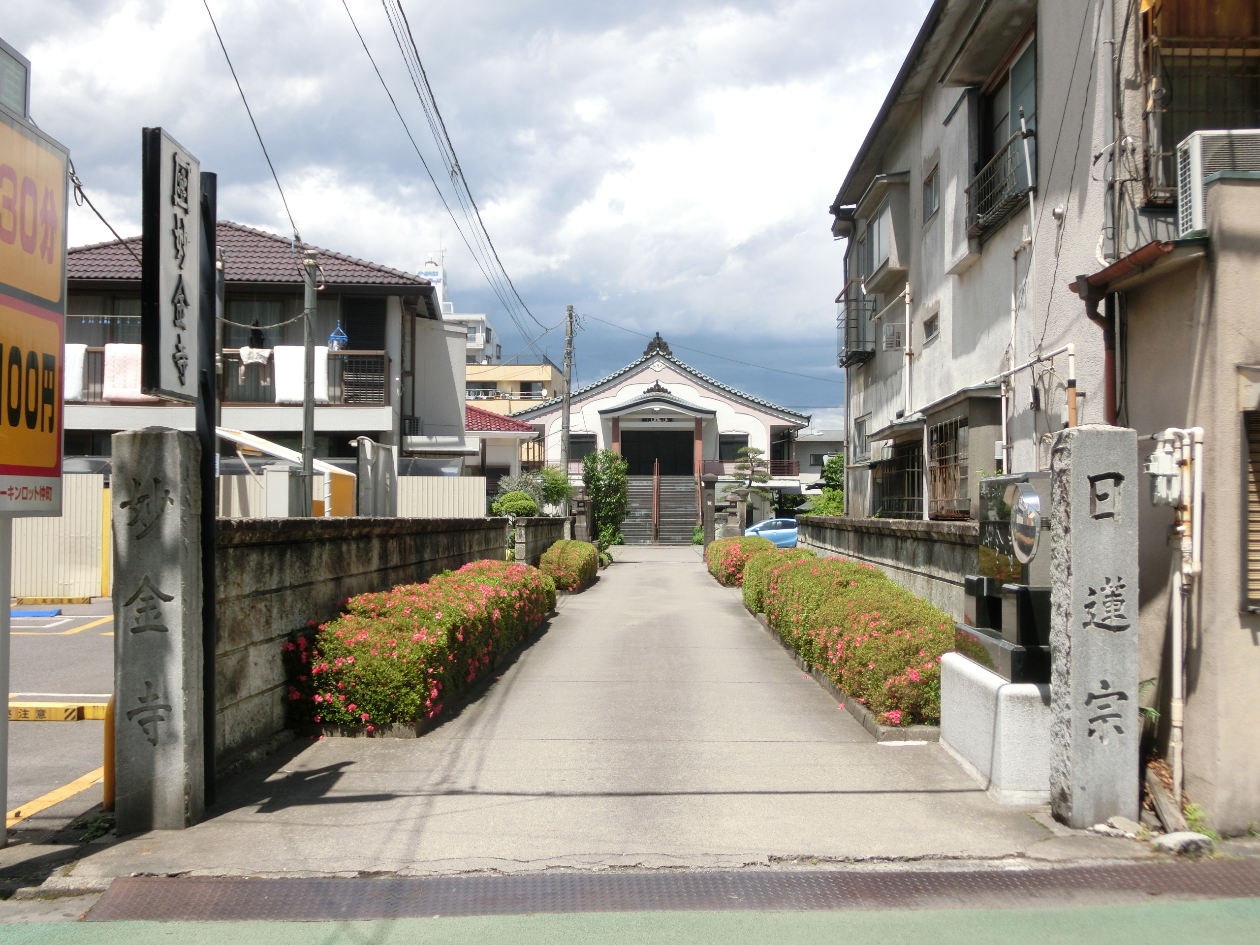 Myokin-ji (Utsunomiya)